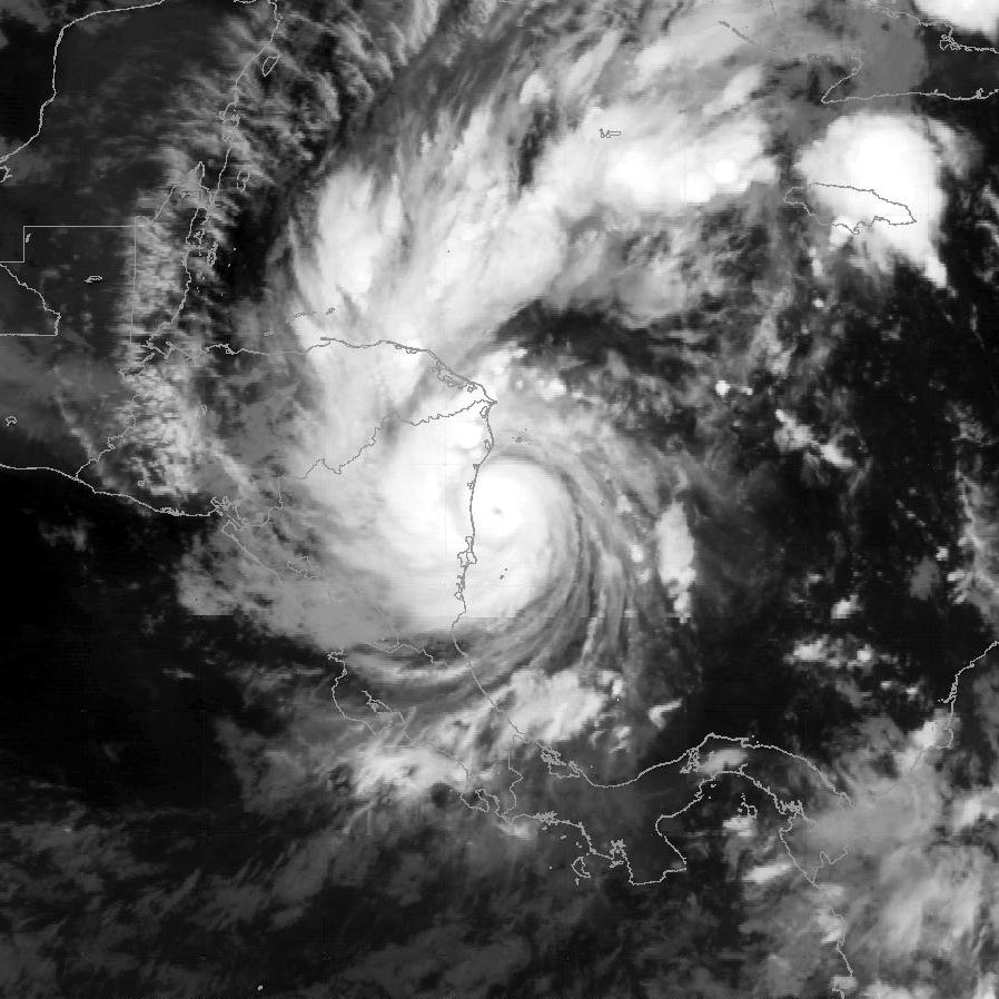 This infrared image from the GOES-12 satellite shows Hurricane Beta at peak intensity on October 30 at 0615 UTC.